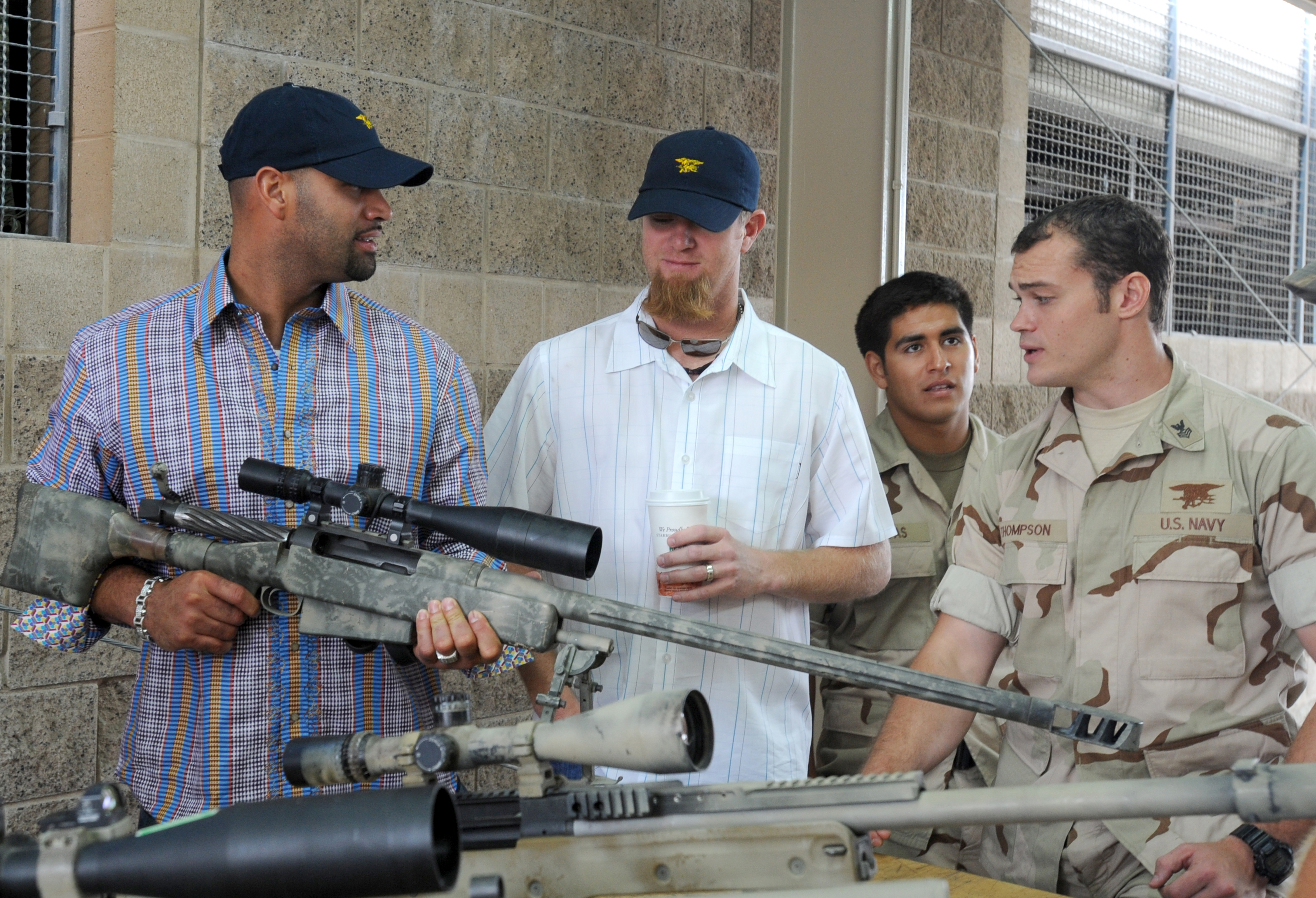 Special Warfare Operator 1st Class Thompson explains details of a Mk 15 sniper rifle to major league baseball players Albert Pujols and Ryan Franklin during a tour of Naval Special Warfare facilities. Pujols and Ryan were two of five players from the St. Louis Cardinals who visited while in the area for a four-game series against the San Diego Padres.